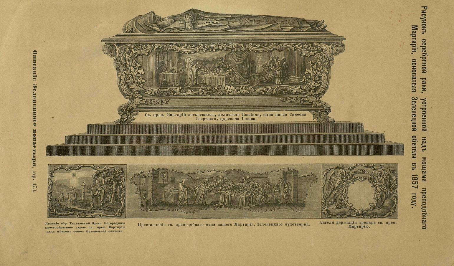 (Rough translation; the subject is well-beyond my vocabulary scope, even in Russian.) Drawing of a silver shrine, arranged for the relics of St. Martyrius, the founder of Zelenetskaya monastery in 1857